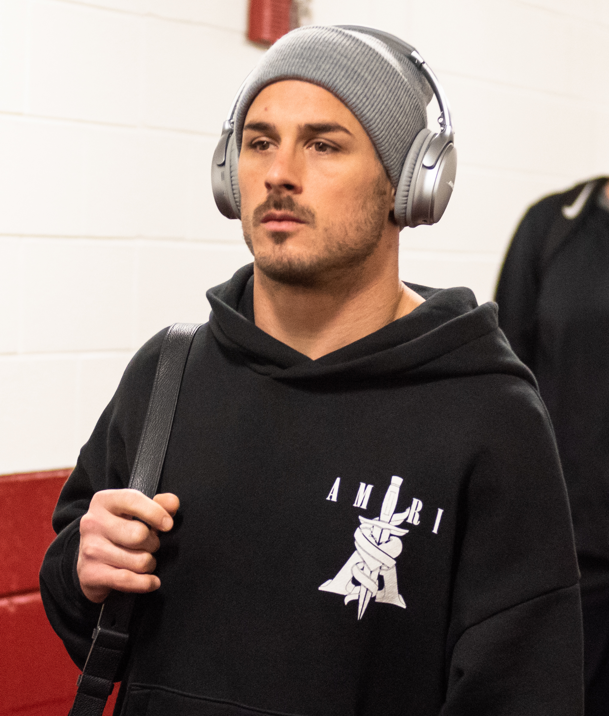 In 2019